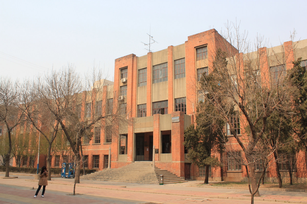 the former northern building of National Peiyang University. nowadays, the 5th building of HEBUT